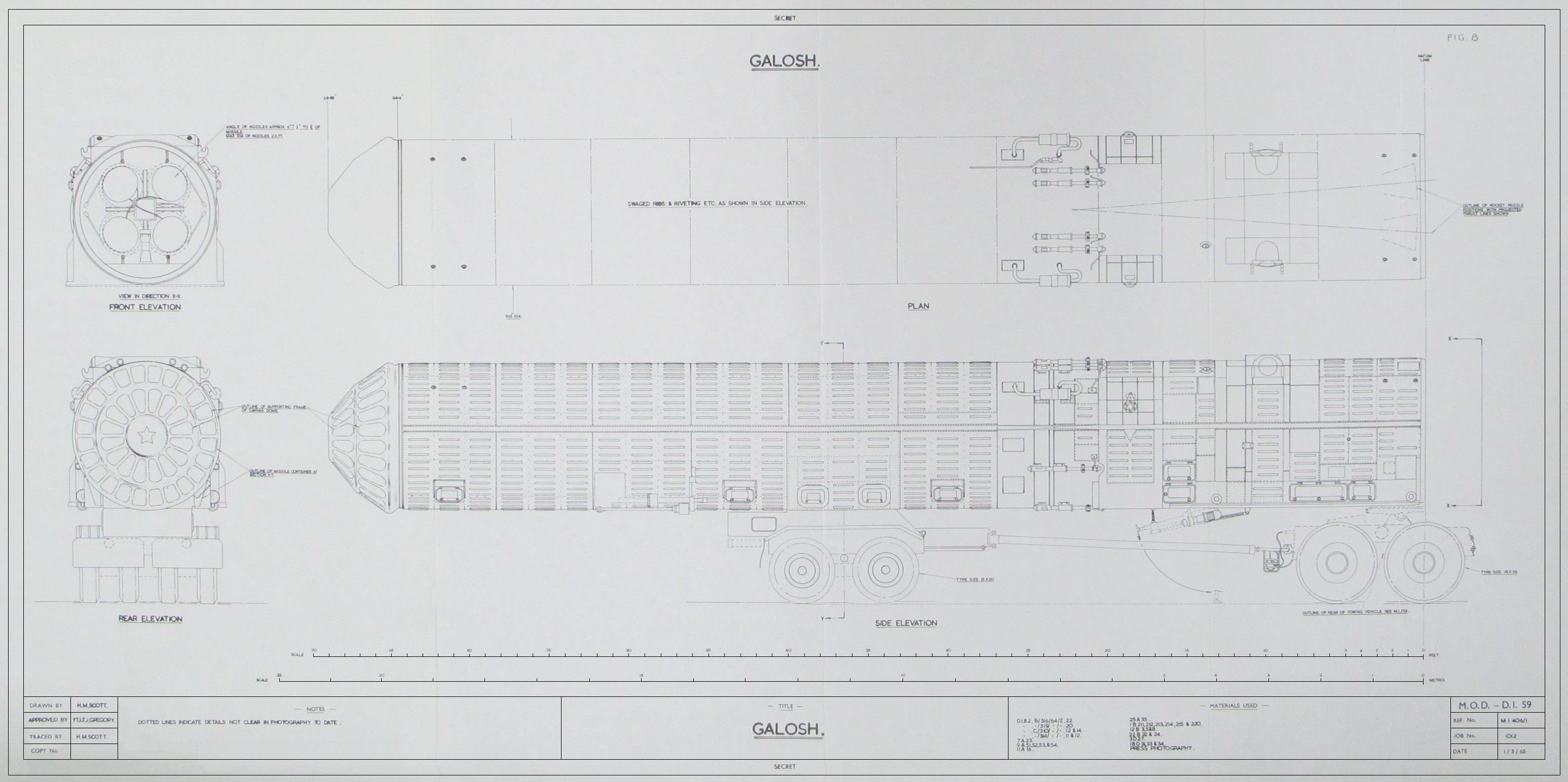 A Galosh exo-atmospheric ABM. A photograph of a declassified UK Ministry of Defence dyeline print published in DEFE 44/115 available to view in The National Archives, Kew, London. The image has been retouched merely to straighten it up and remove the distortion created by the camera lens. The drawing was created by UK Ministry of Defence draughtsman H.M.Scott based on intelligence, personal observation by Allied embassy military attachés, and photographs taken of equipment seen in a Moscow Red Square May Day Military Parade 1964, and possibly other intelligence sources. The National Archives file is no longer classified and is in the public domain. UK Crown Copyright expired after 50 years.